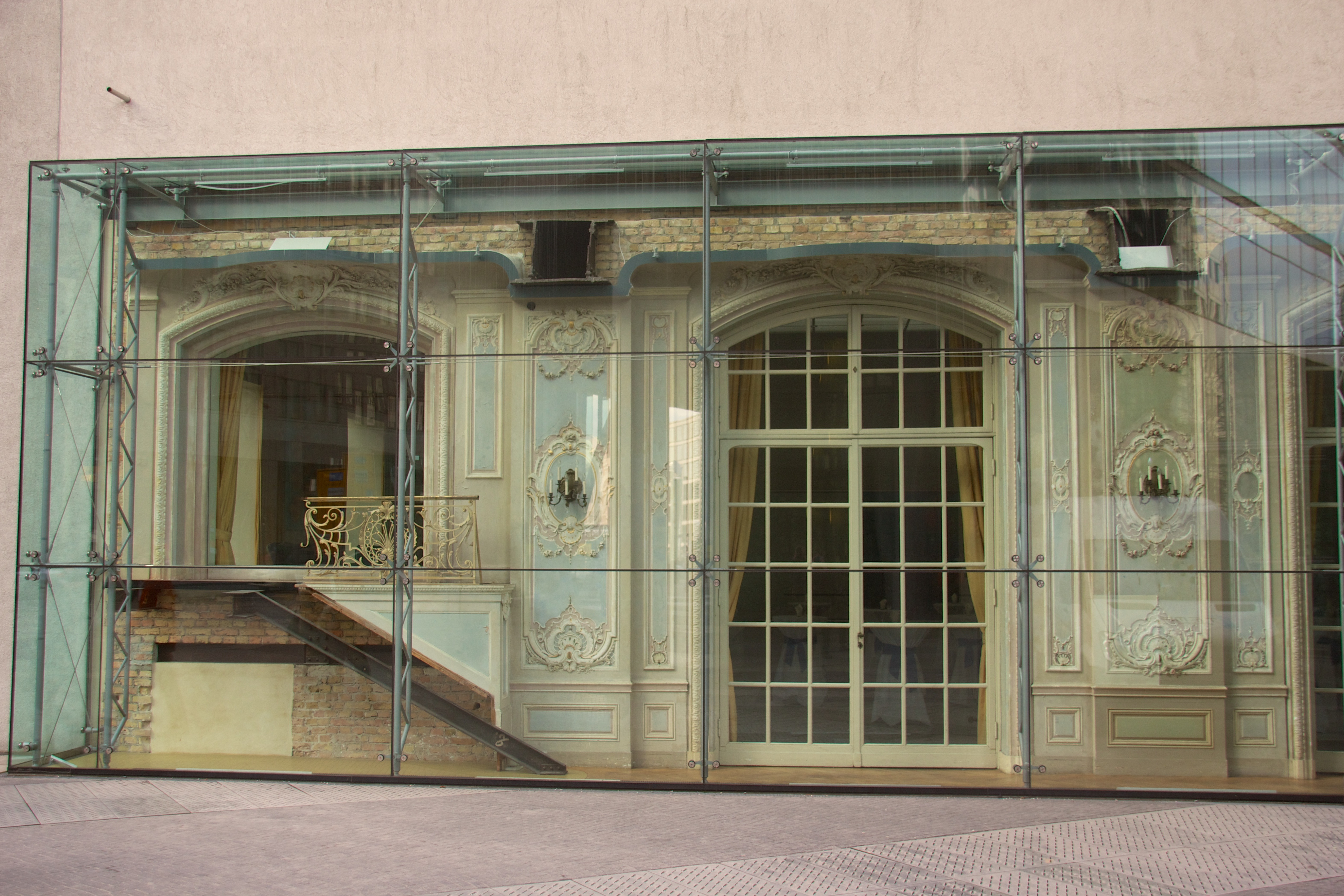 Hotel Esplanade, Sony Centre, Berlin.